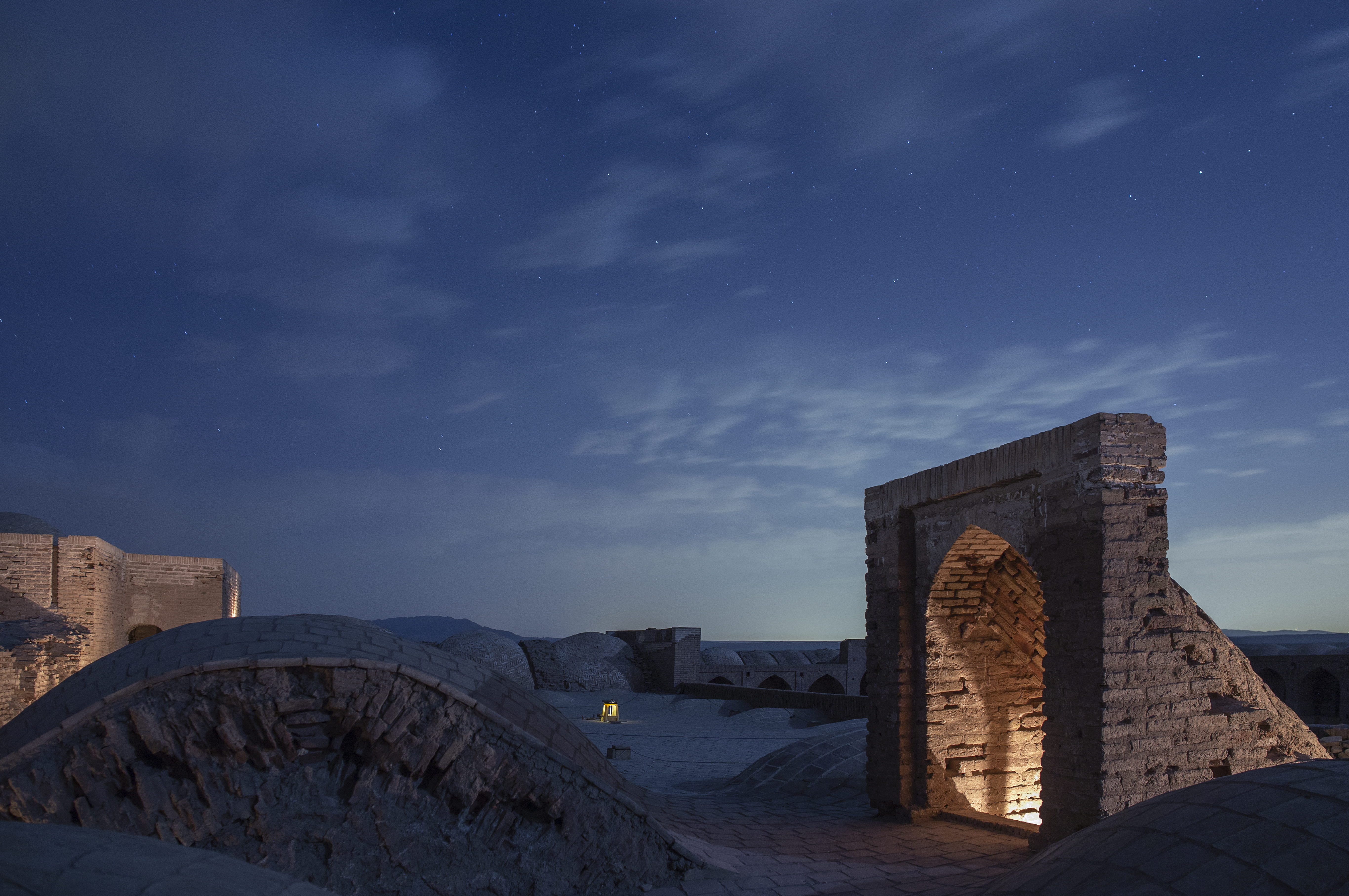 Deir-e Gachin Caravansarai is one of the greatest caravansarais of Iran which is located in the center of Kavir National Park. Its unique qualities is the reason it is called “Mother of Iranian Caravansarais”. It is located in the Central District of Qom County, 80 kilometers north-east of Qom (60 kilometers into Garmsar Freeway) and 35 kilometers south-west of Varamin. (Photo by: Mostafa Meraji, wiki loves monuments 2018)